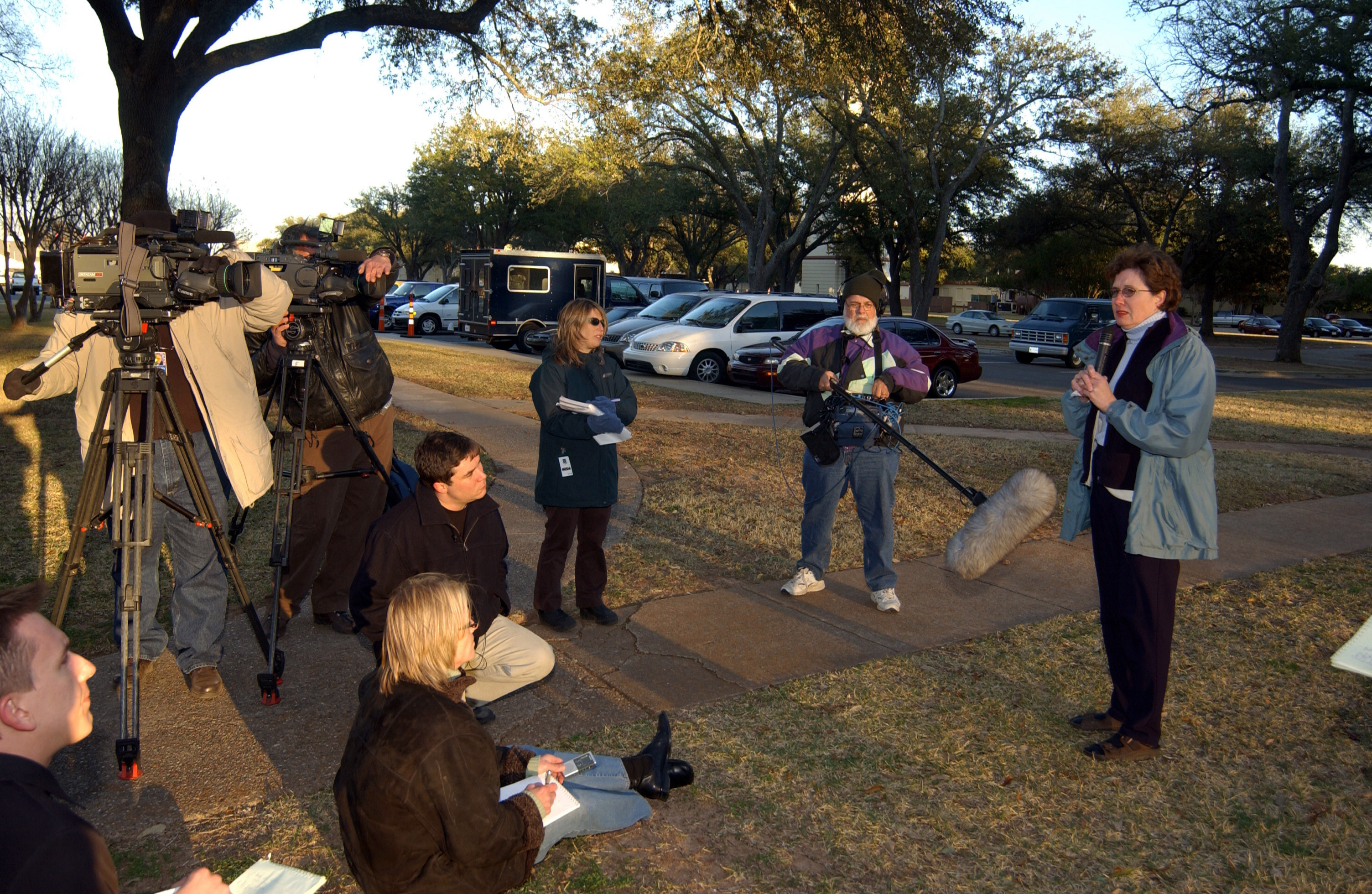 Mrs. Claire Leger, mother of Canadian Sergeant (SGT) Marc Leger, Alpha Company, 3rd Battalion, Princess PatriciaÕs Canadian Light Infantry (3 PPCLI), killed in the Tarnak Farms incident, speaks to the gathered media following the completion of the Article 32 hearing at Barksdale Air Force Base (AFB), Louisiana (LA). The press is covering the Article 32 investigation concerning the Tarnak Farms Friendly Fire incident that killed four Canadian soldiers and injured eight near Kandahar, Afghanistan. The Article 32 hearing is an investigation of the charges against the pilots to determine whether to try by court-martial.